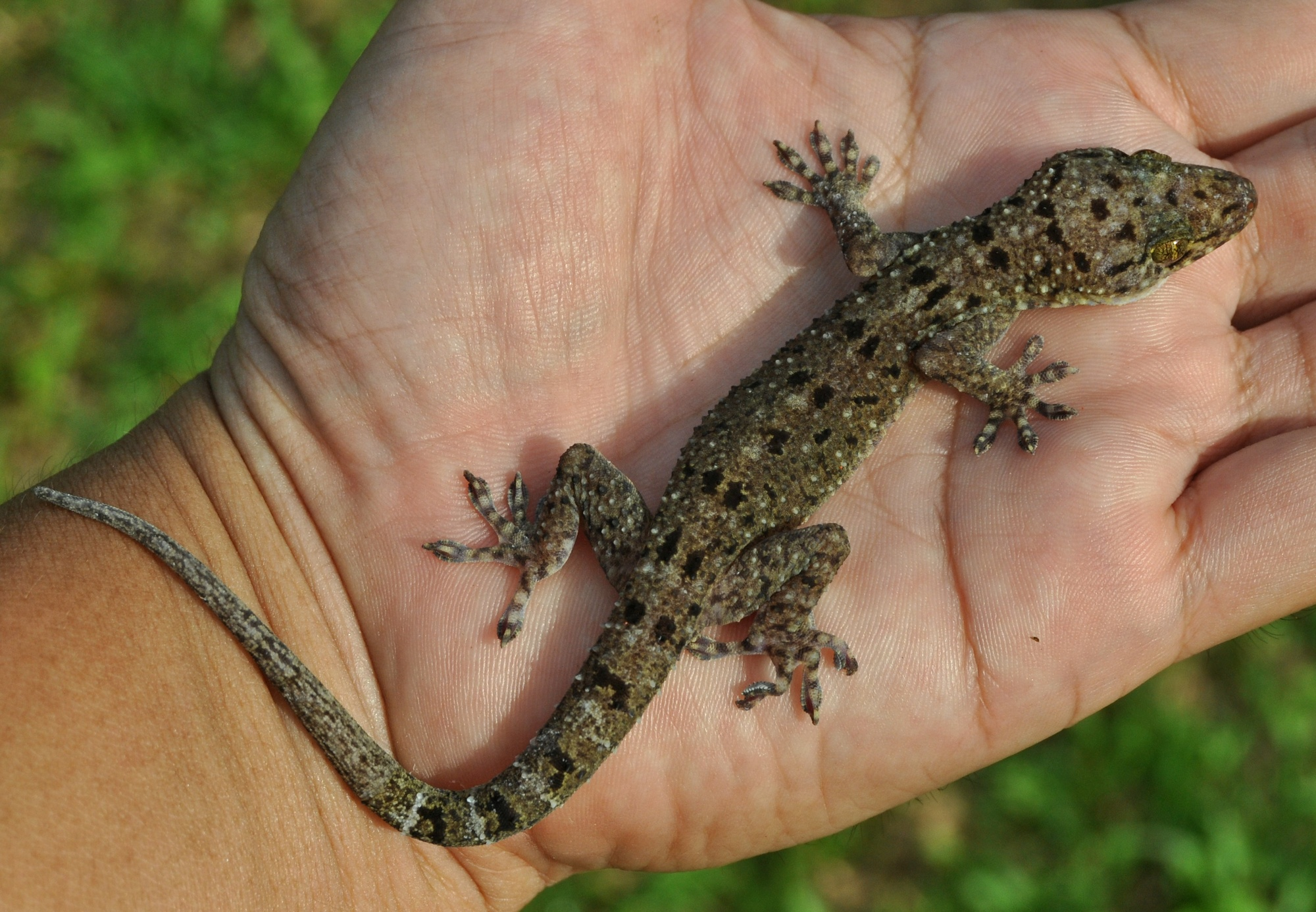 Gekko monarchus, Spotted House Gecko (in hand); female, 81mm SVL and 96 tail length. From oil-palm plantation in Upper Seruyan, Central Kalimantan, Indonesia